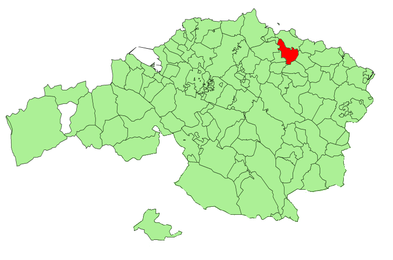 Gautegiz Arteaga municipality in the province of Biscay